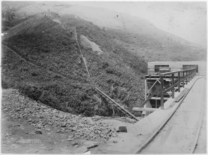 Water race and tram terminus at the Waiorongomai public gold battery on the slopes of Mount Te Aroha in the Kaimai Ranges, Hauraki, New Zealand. Shows a pipe running up a hillside in the centre, with the tram terminus in the right foreground. Photograph taken by the Burton Brothers studio, operating between 1868-1898. Exact date of image unknown.